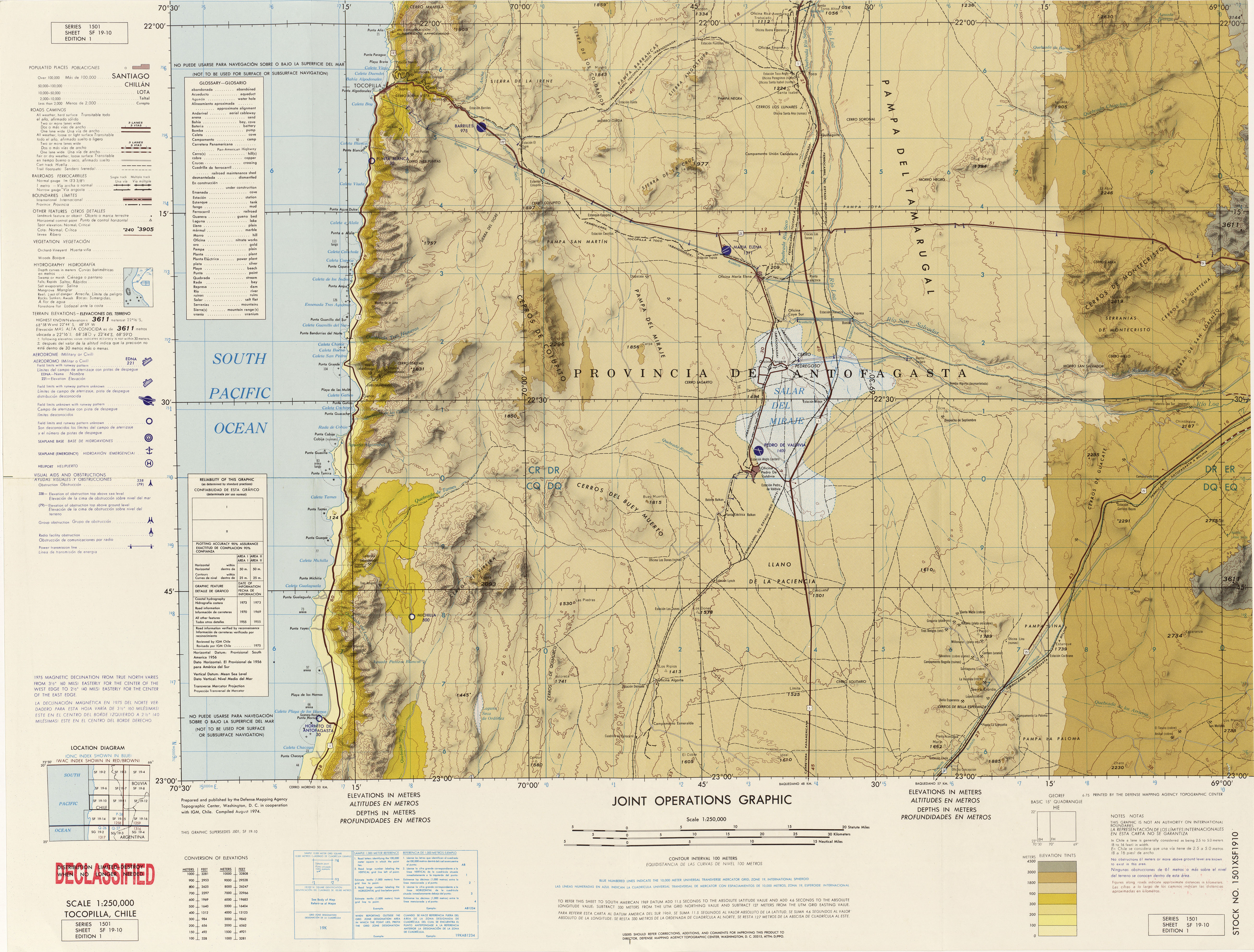 Tocopilla, Pampa del Tamarugal